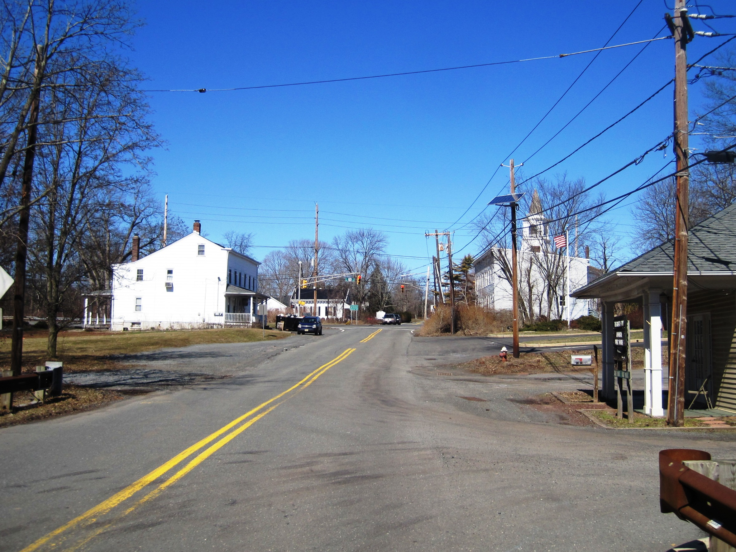 Photo of Harlingen, New Jersey, an unincorporated community in Montgomery Township. The photo was taken on westbound Harlingen Road approaching U.S. Route 206.